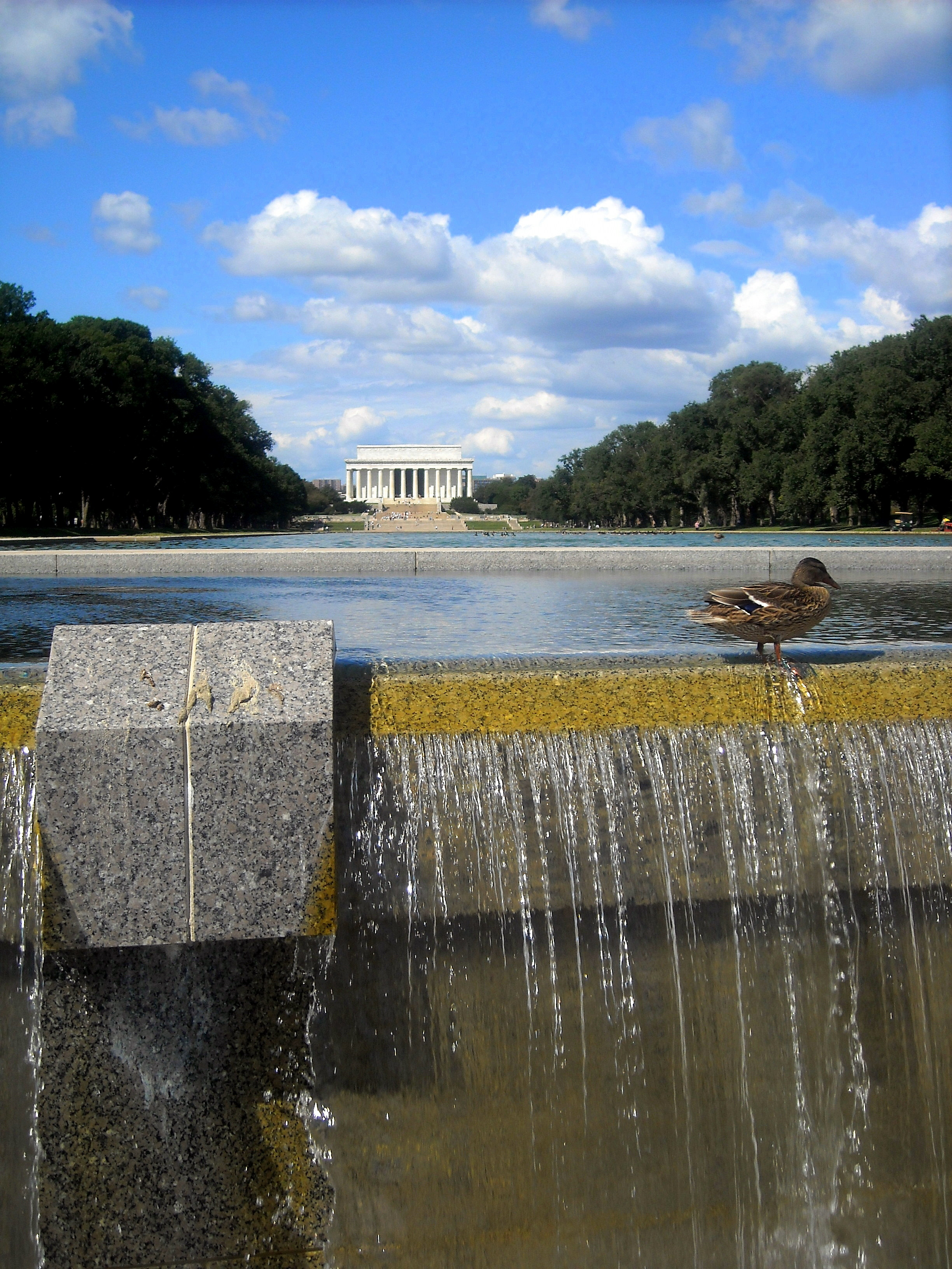 A duck walks along the edge of a waterfall at the National World War II Memorial in Washington, D.C.'s West Potomac Park. The Reflecting Pool and Lincoln Memorial, also in West Potomac Park, are visible in the background.